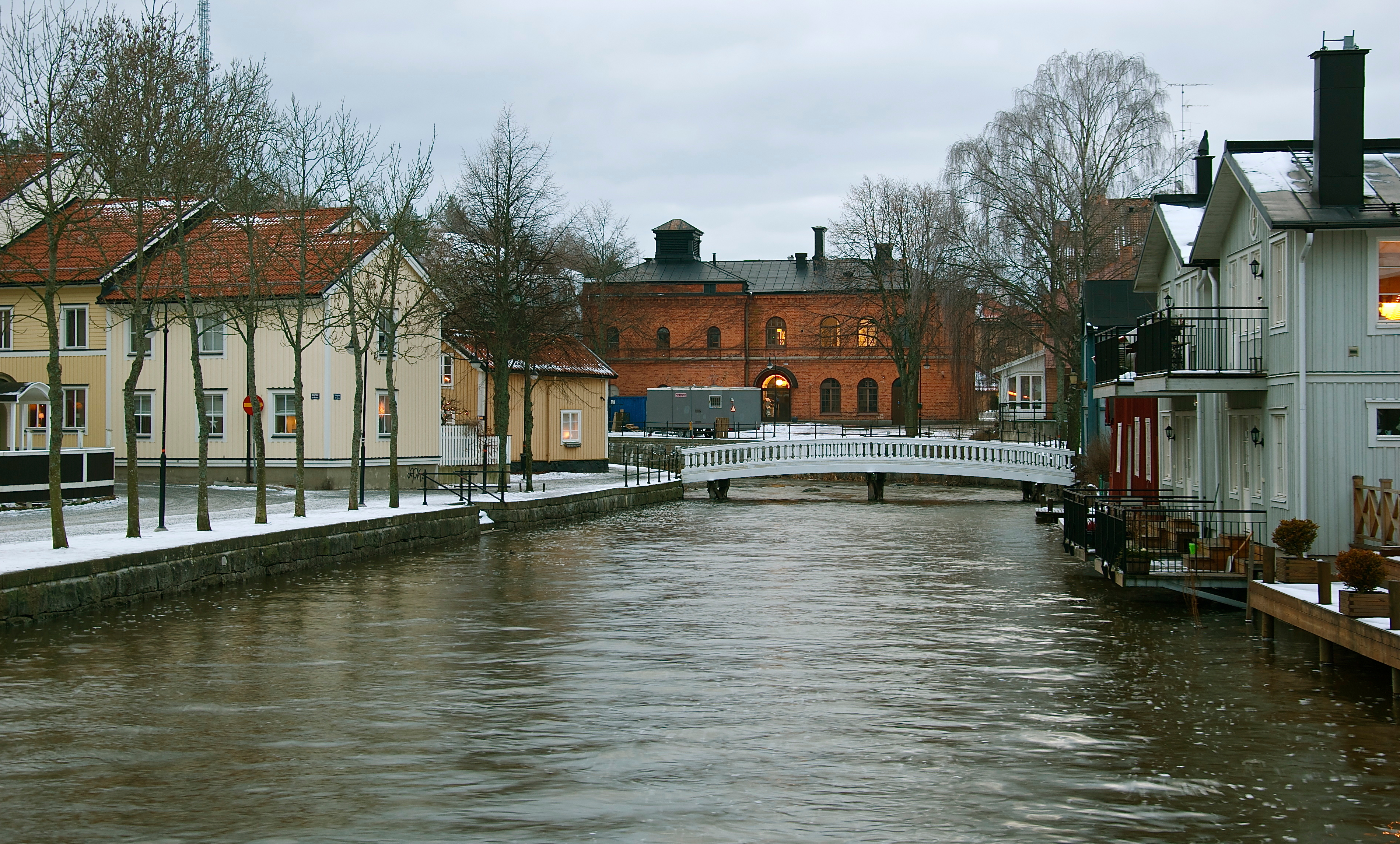 Norrtäljeån (Norrtälje Stream), central Norrtälje.